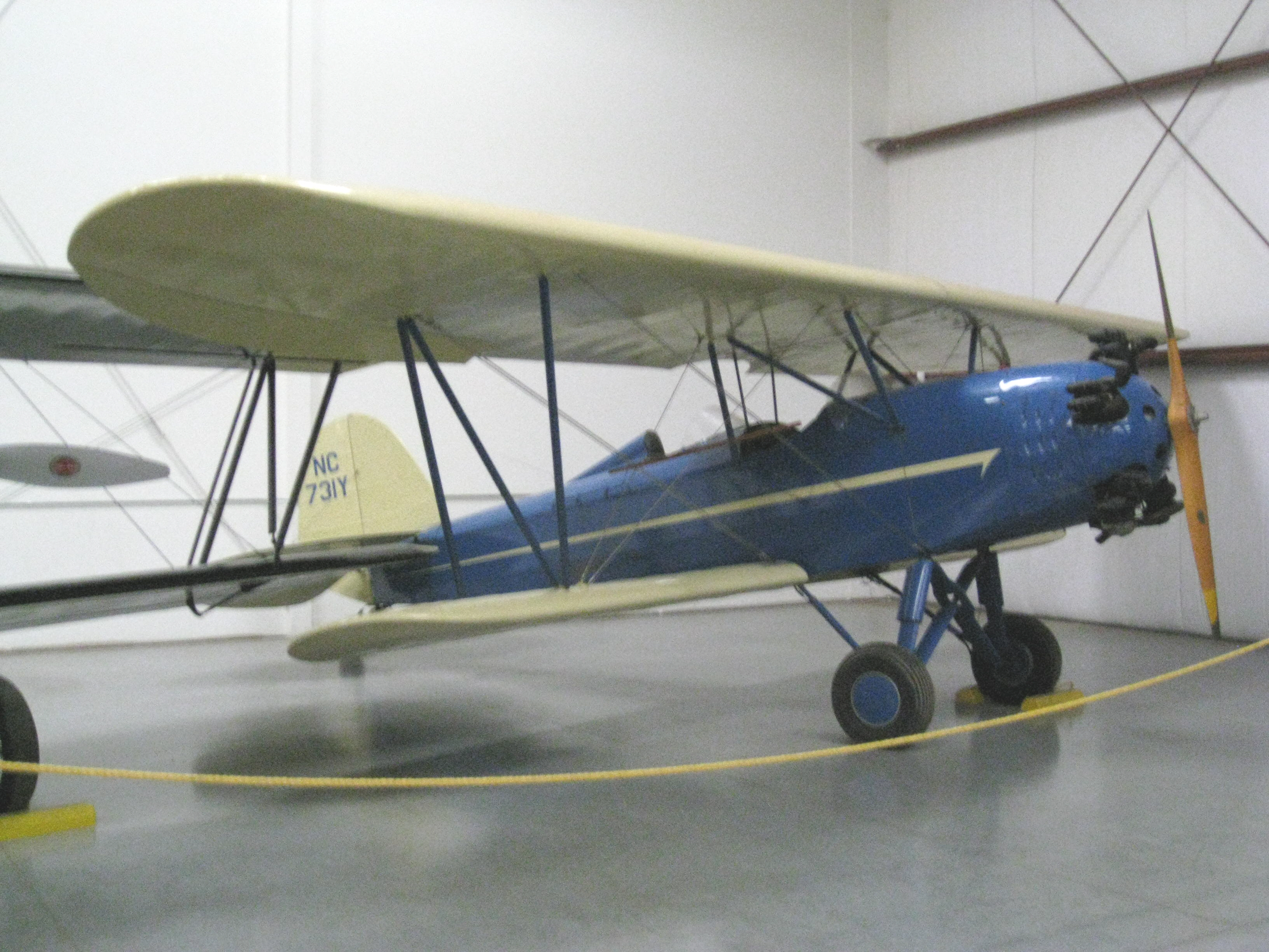 Brunner-Winkle Bird BK biplane NC731Y of 1929 at the Yanks Air Museum, Chino California